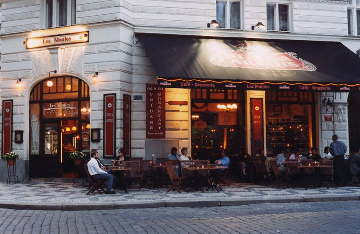 Belgian Beer Cafe in Prague